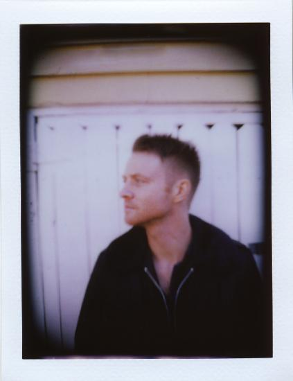 Andy Zipf Headshot